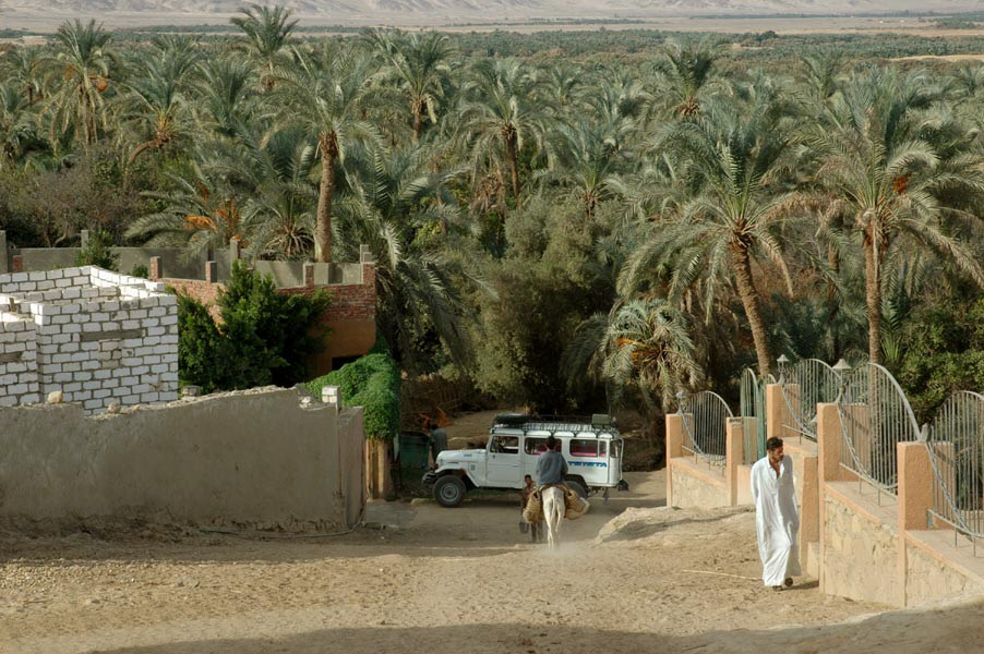 The quiet life in Bahariya Oasis